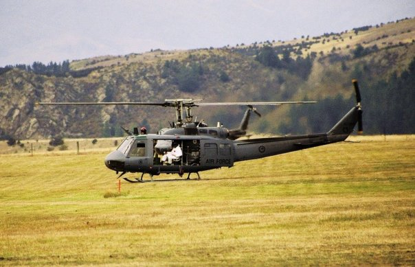 RNZAF Iroquois at the 2008 Warbirds over Wanaka airshow in New Zealand